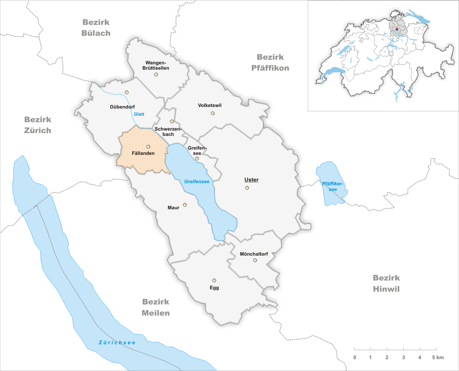 Municipality Fällanden